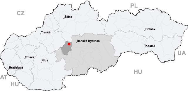 map of Slovakia, city of Kremnica highlighted